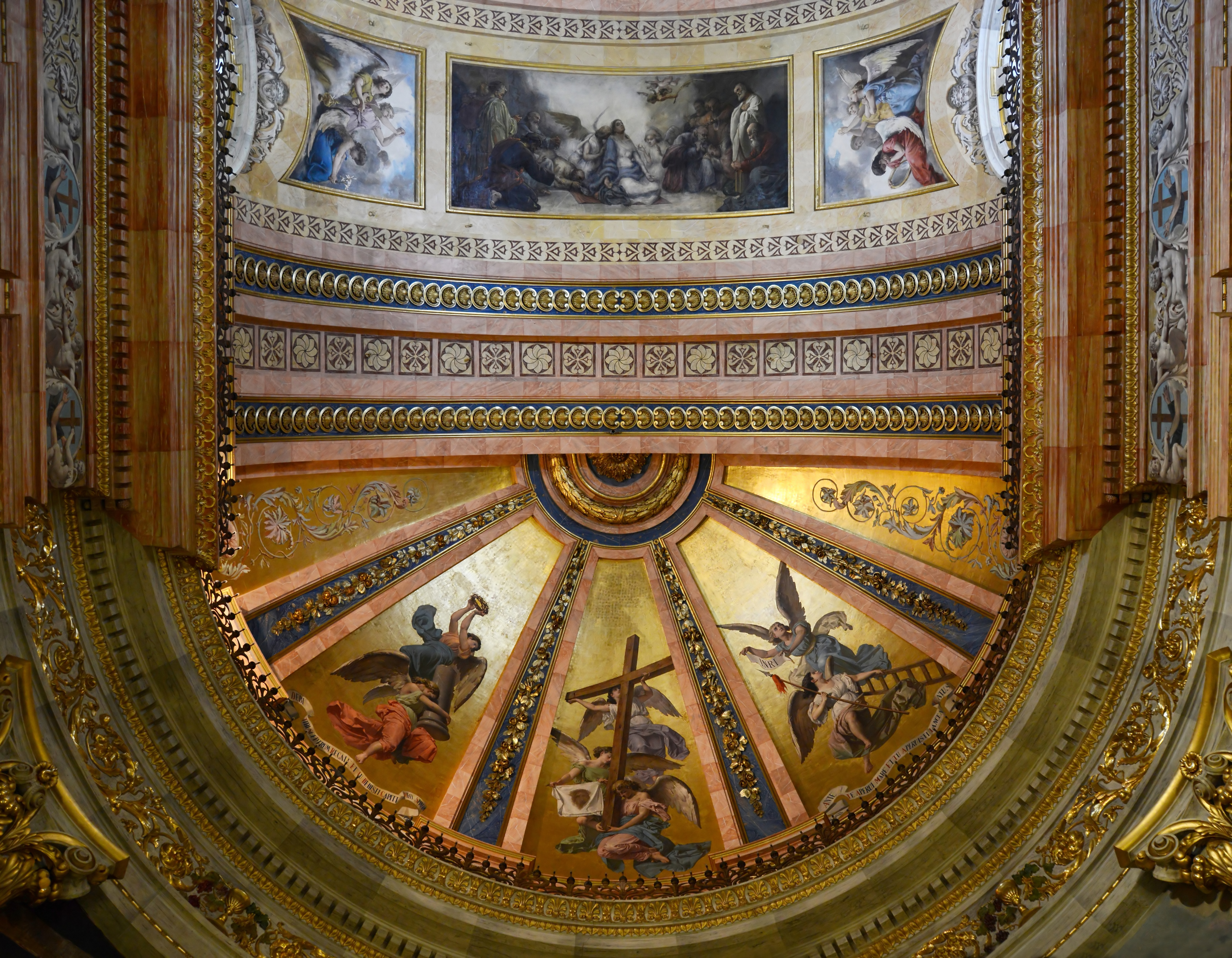 Ceiling of the main altar, Basílica de San Francisco el Grande. Madrid, Spain